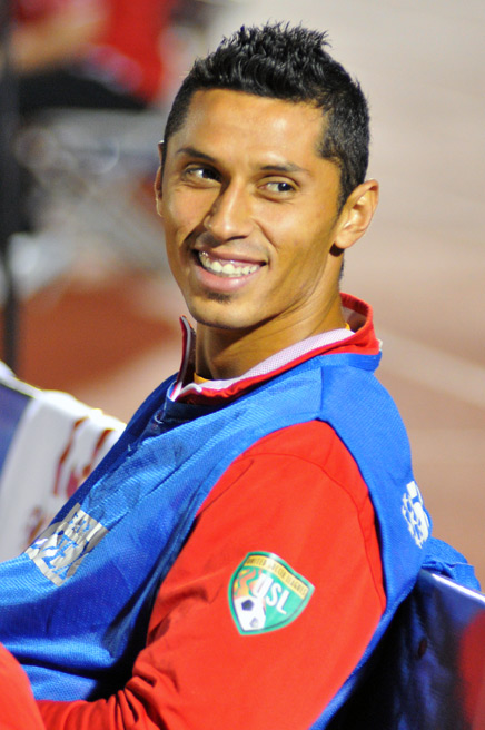 Photo of soccer player, Miguel Gallardo. Wilson Wong photo.